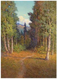 Painting executed by Willis E. Davis beginning in July 1906 in the Lake Tahoe area, finished in 1907.